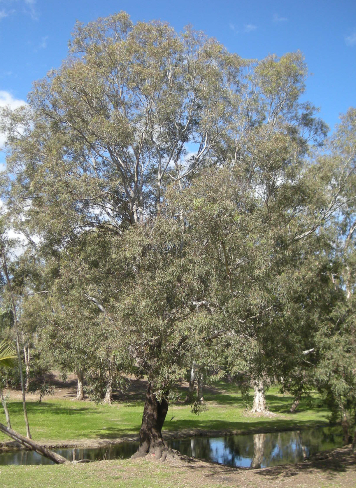 Eucalyptus coolabah on small creek, Coastal Central Queensland